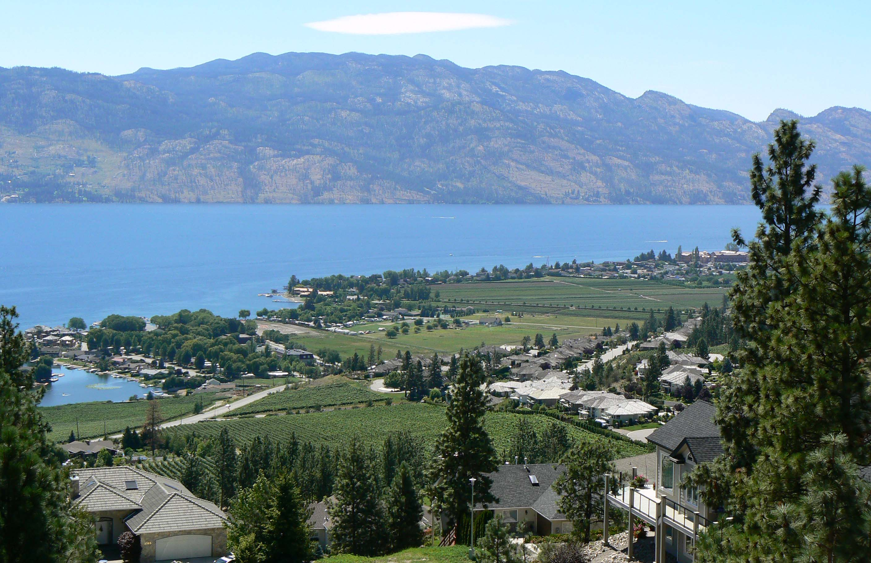 Gellatly Bay and Mission Hill areas of West Kelowna